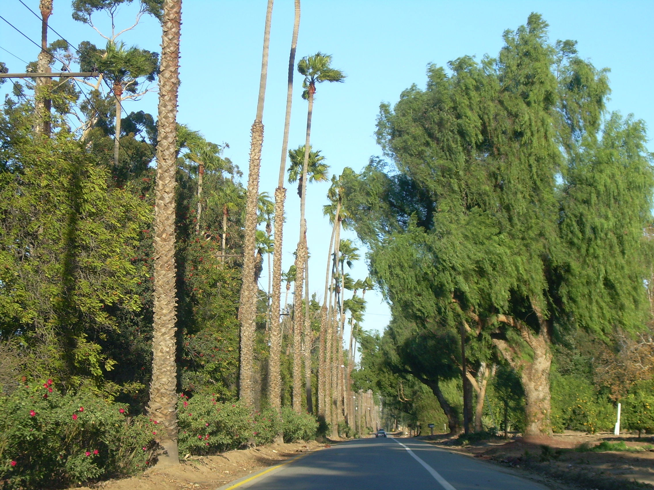 Victoria Avenue — in the southwestern City of Riverside, Southern California. Retaining historic palms and other trees, and historic citrus groves of the Arlington Heights Citrus Company behind them, remaining from 20th century California citrus era in region. On the National Register of Historic Places in Riverside County.